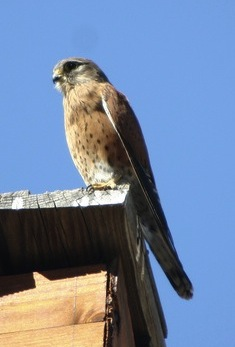 Location: Relais de la Reine hotel, near Isalo National Park, Madagascar